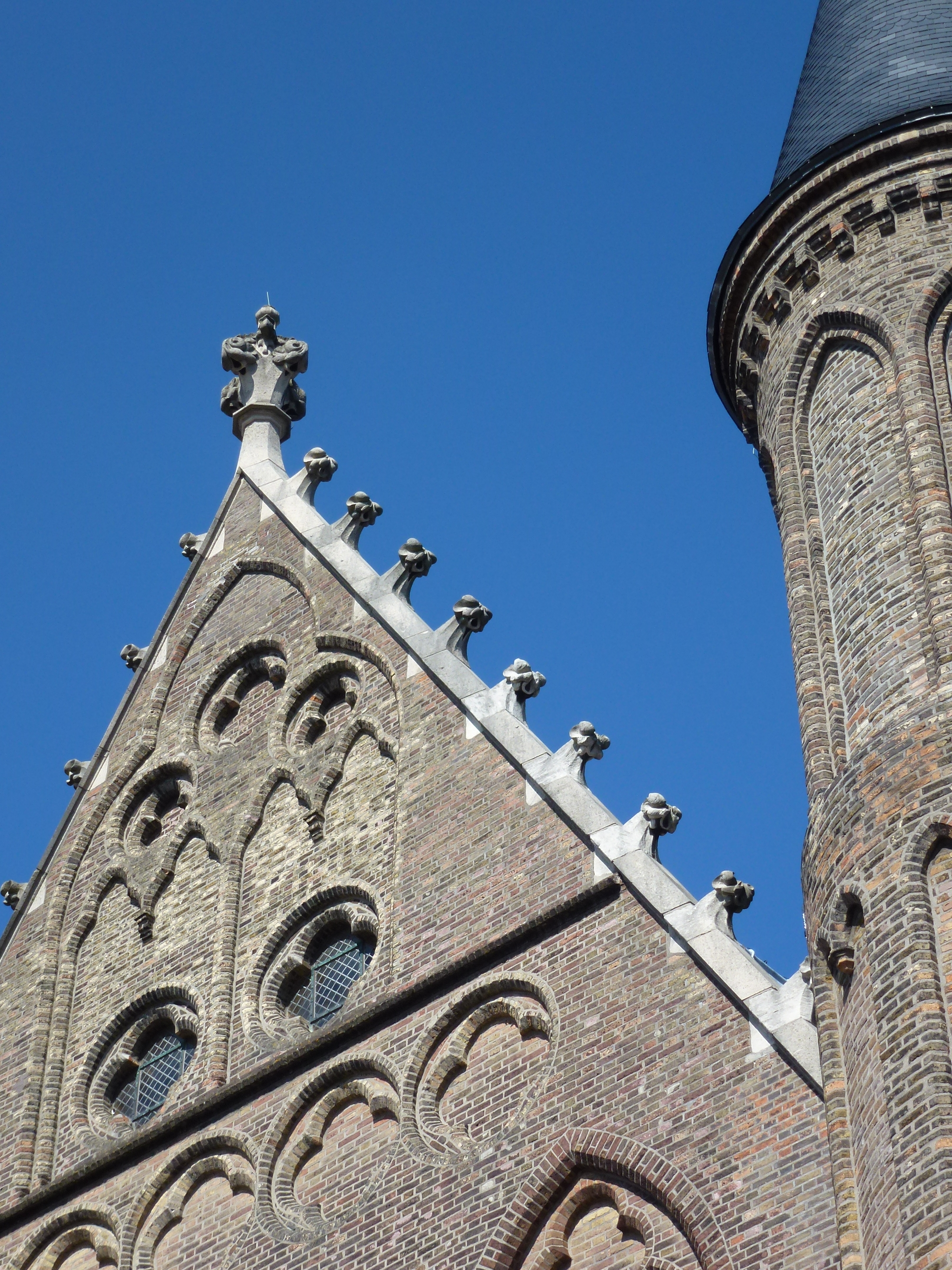 Roof final and crockets